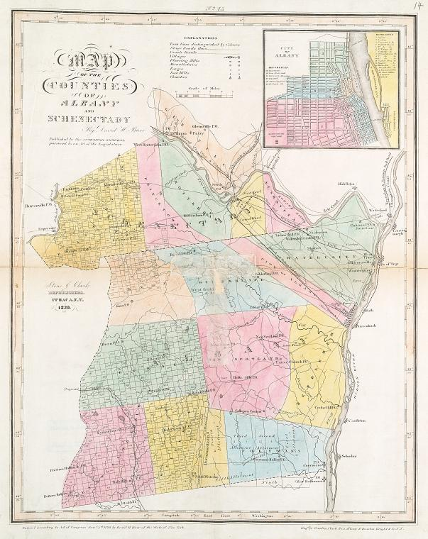 Map of Albany and Schenectady counties in New York state from 1839